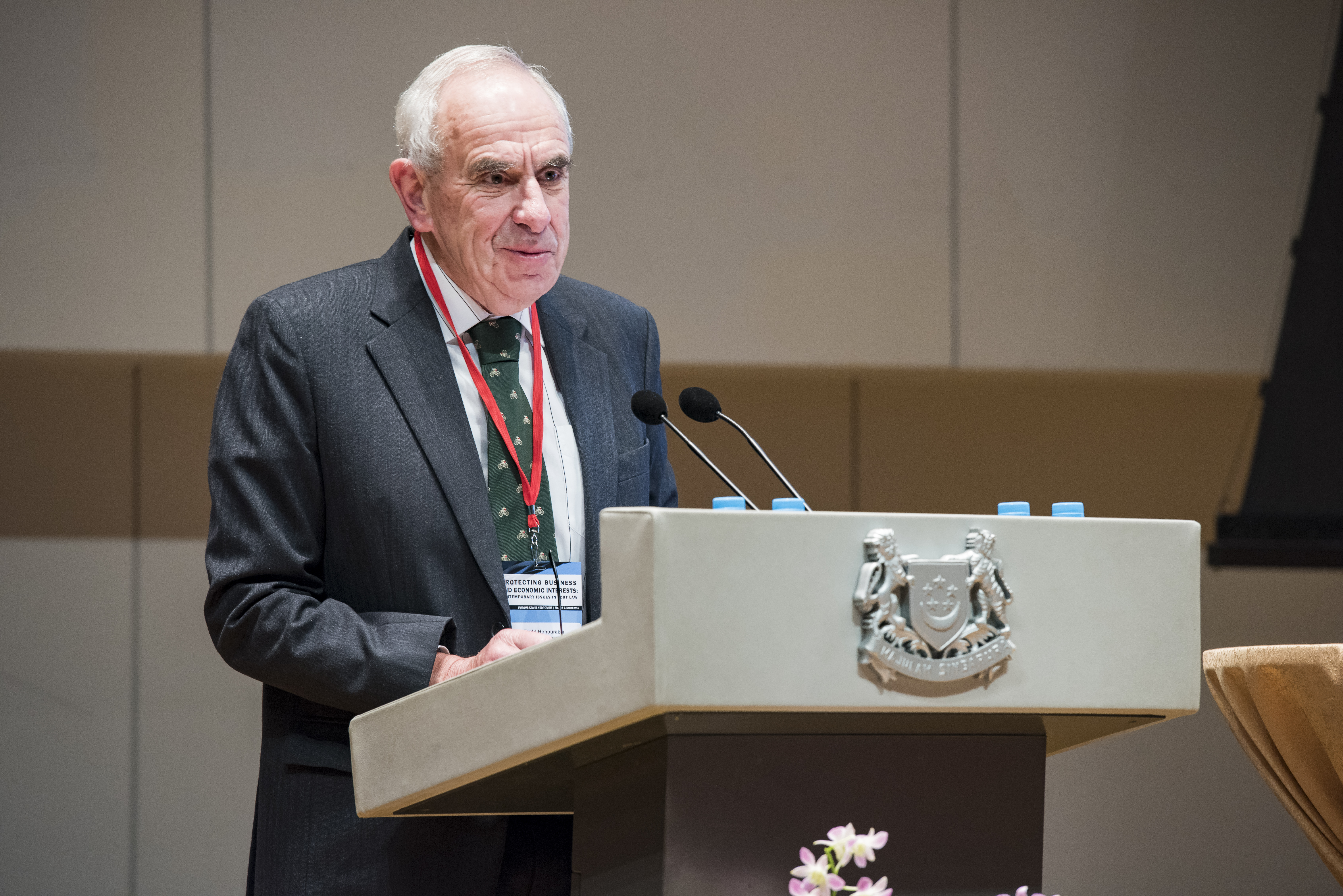 Lord of Appeal Leonard Hoffman Singapore 2016